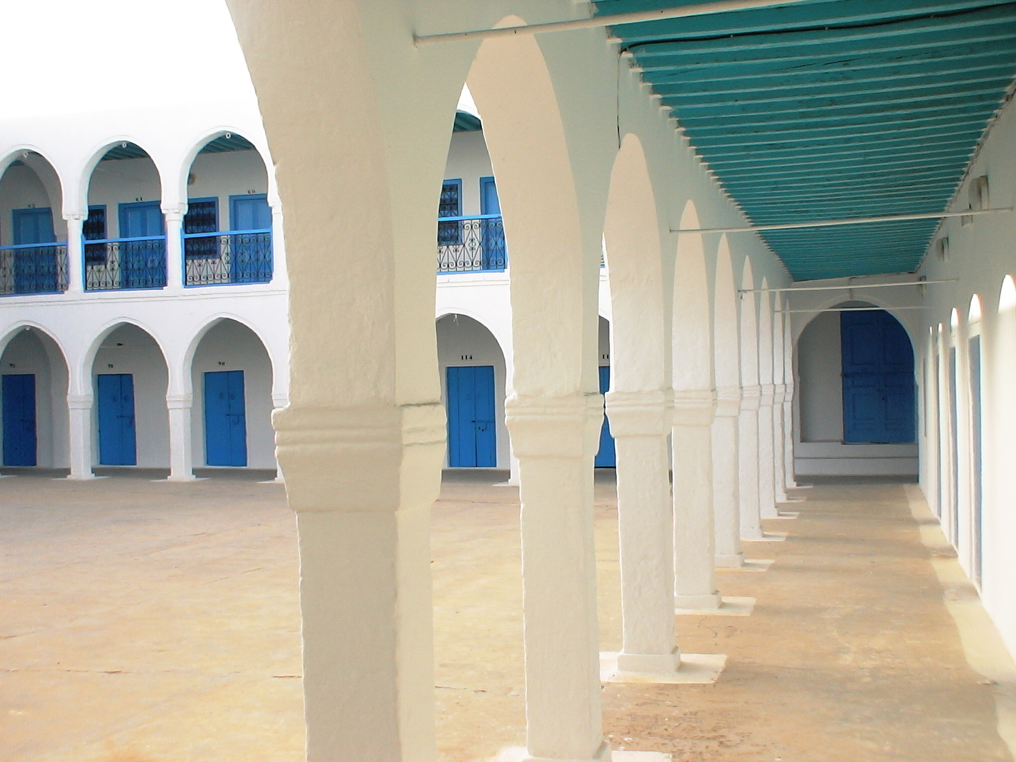 Residence of Ghriba, synagogue in Djerba